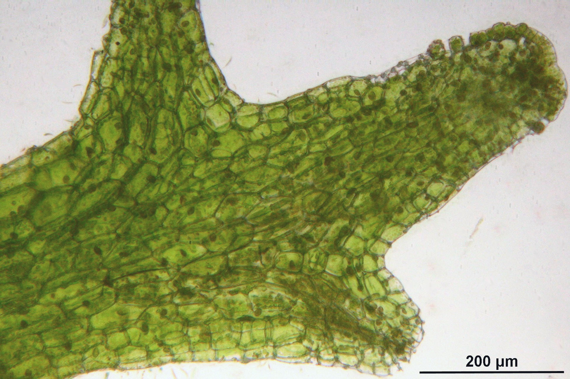 Riccardia palmata